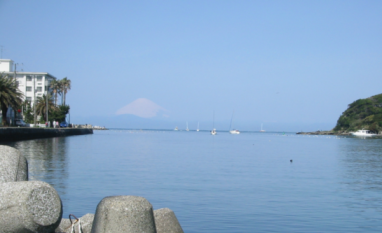 Moroiso inlet (personal photograph) Linked to Moroiso article